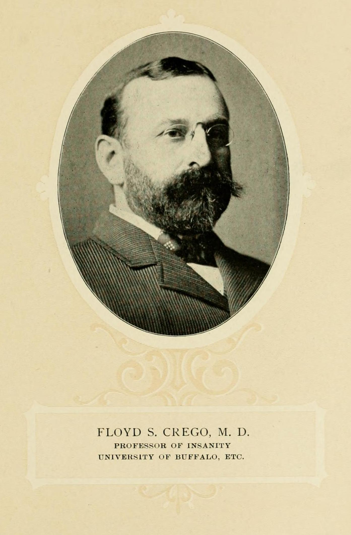 Floyd Stranahan Crego